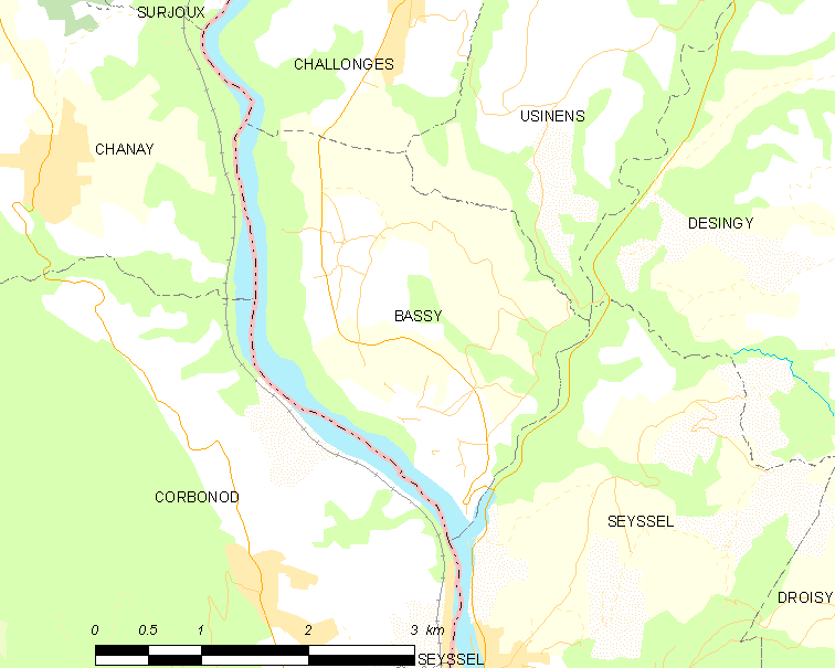 Map of French municipality Bassy